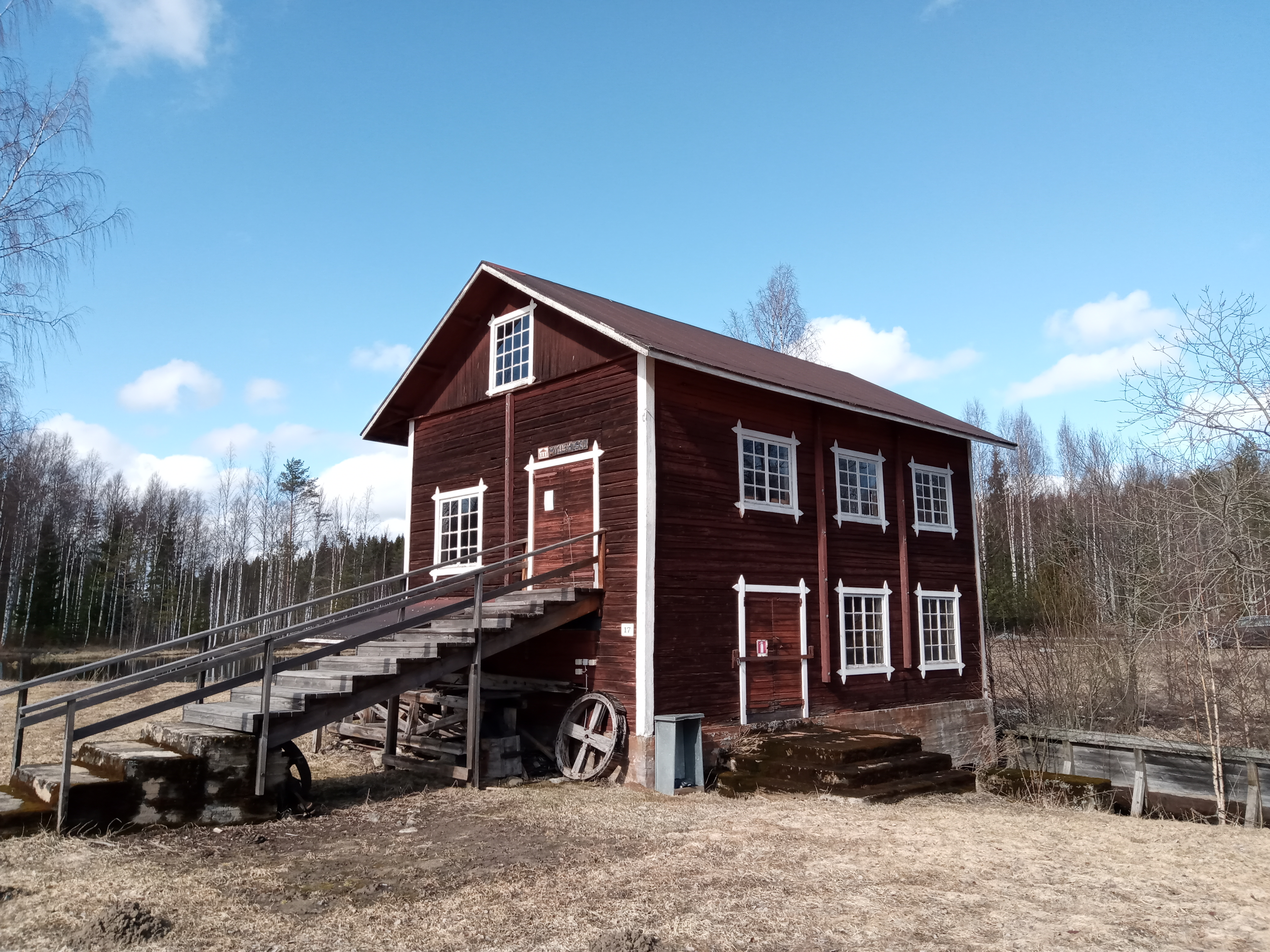 Säimen Mill Museum on 13 April 2020.